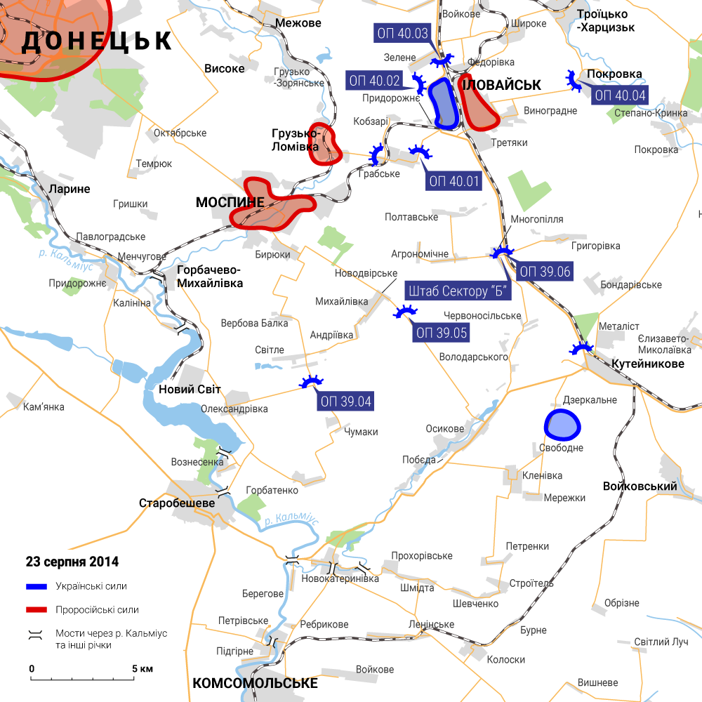 Ilovaisk battle, 23 August 2014